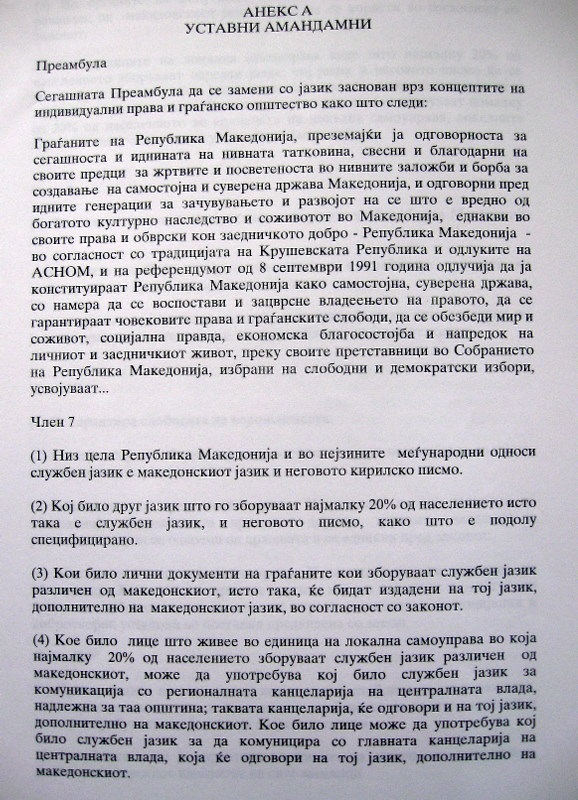 Annex of Ohrid Agreement This media file is produced by Wikipedian in Residence in Category:Wikipedian in Residence at DARM in 2016.